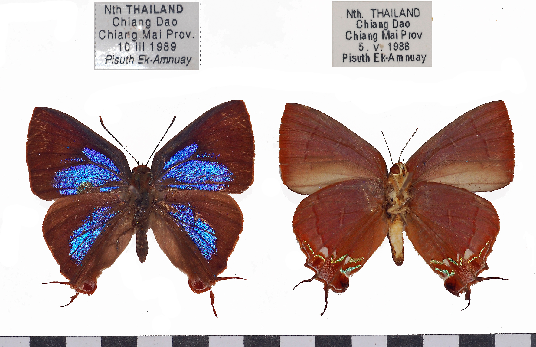 Remelana jangala subspecies ravata (Moore), Thailand, males, Alan Cassidy photo.